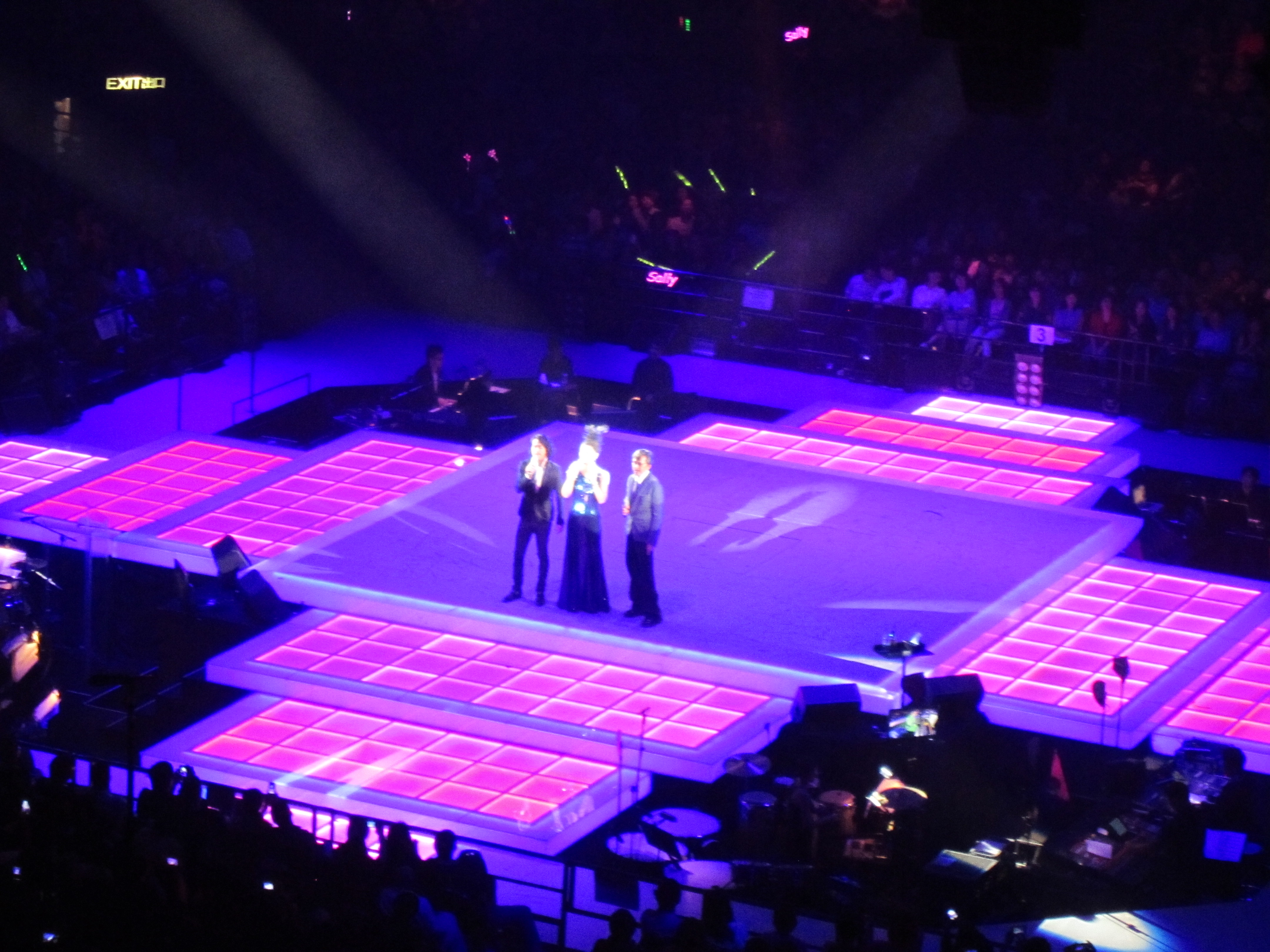 Alex Lam and his parents in a concert